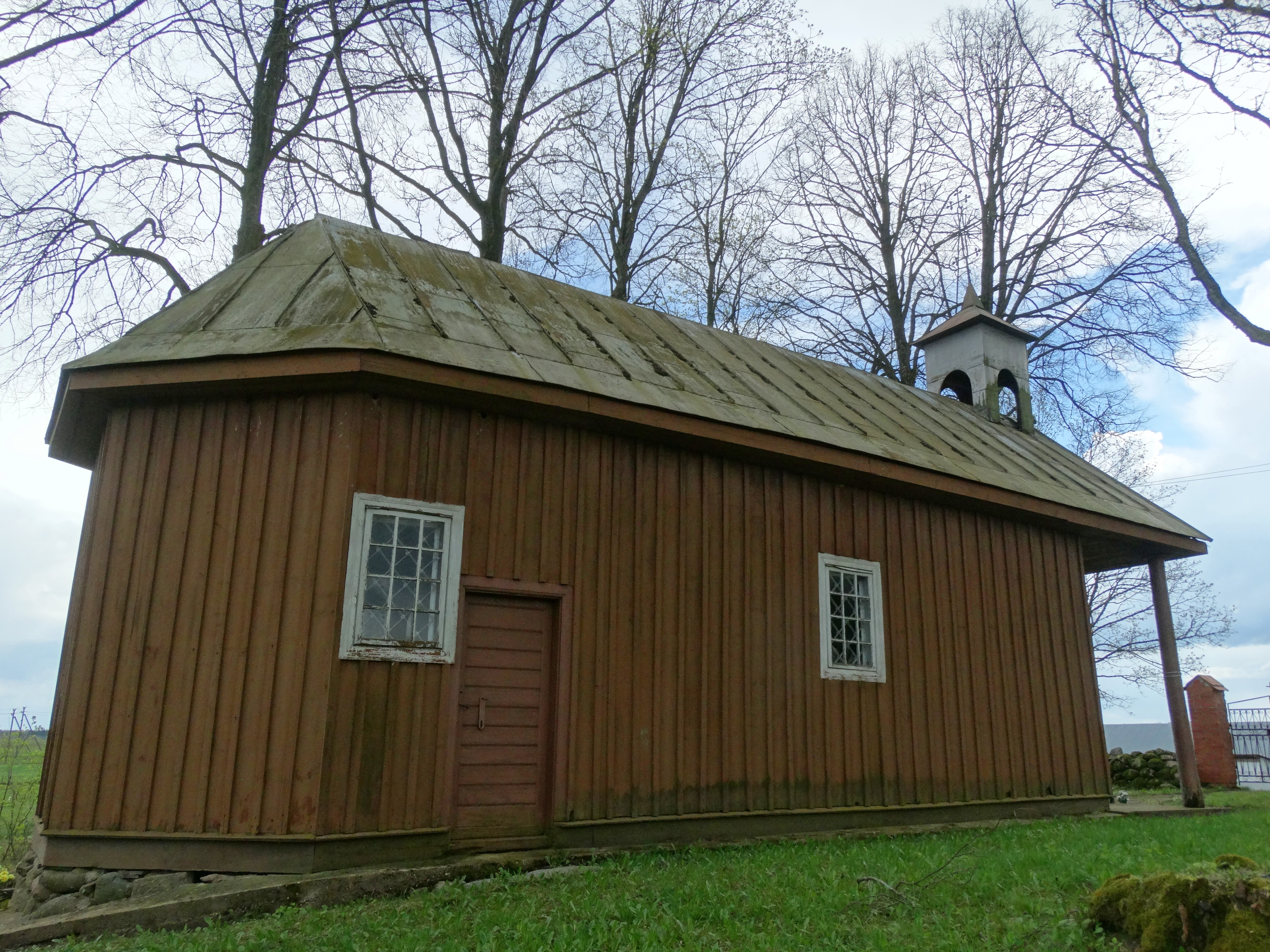 Chapel, Sangėliškės, Šalčininkai District, Lithuania